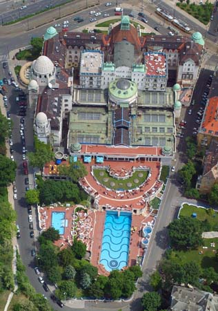 St. Gellért Square, Budapest, Hungary, aerial photography